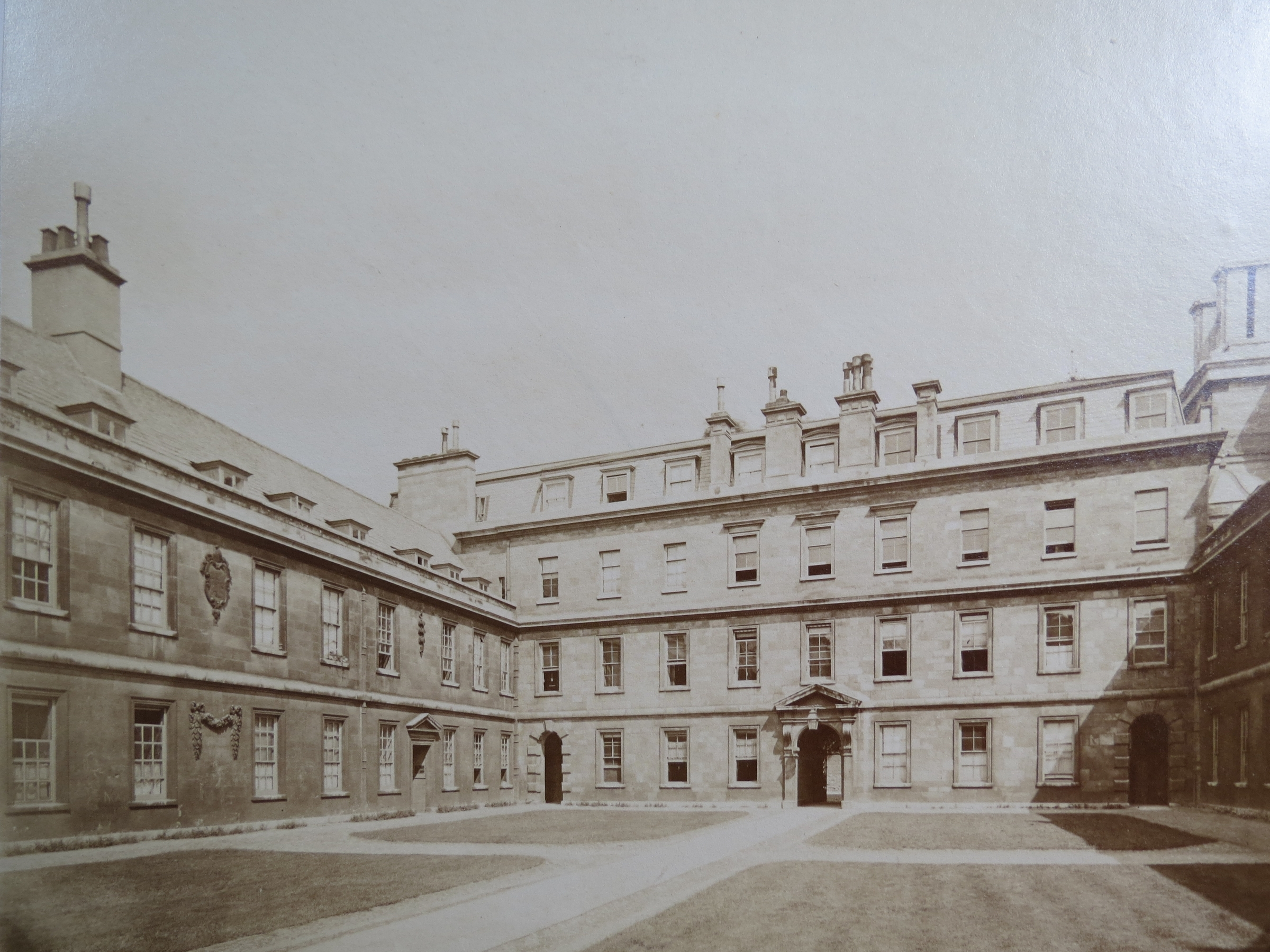 Trinity Hall, Cambridge University. The East Range of Front Court, circa 1870. Image taken from original albumen print from a bound album of 58 Cambridge University photographs. Original 19th century album in the possession of Kimberly Blaker, New Boston Fine and Rare Books.